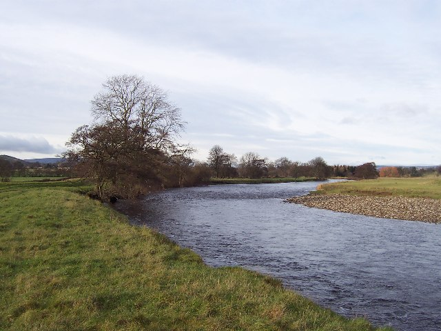 River Ure near Jervaulx Abbey. Exact location, looking upstream from where the Harker Beck enters the Ure.